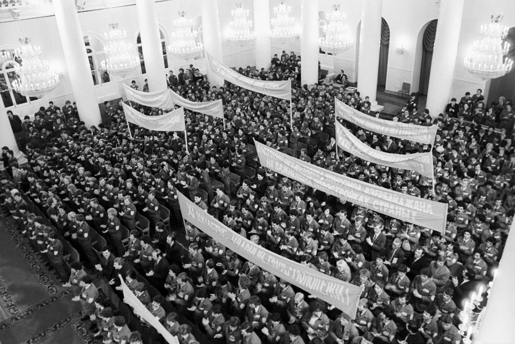 “Send-off rally”. Send-off rally for students teams going to the country's construction sites. The Columned Hall of the House of Unions.